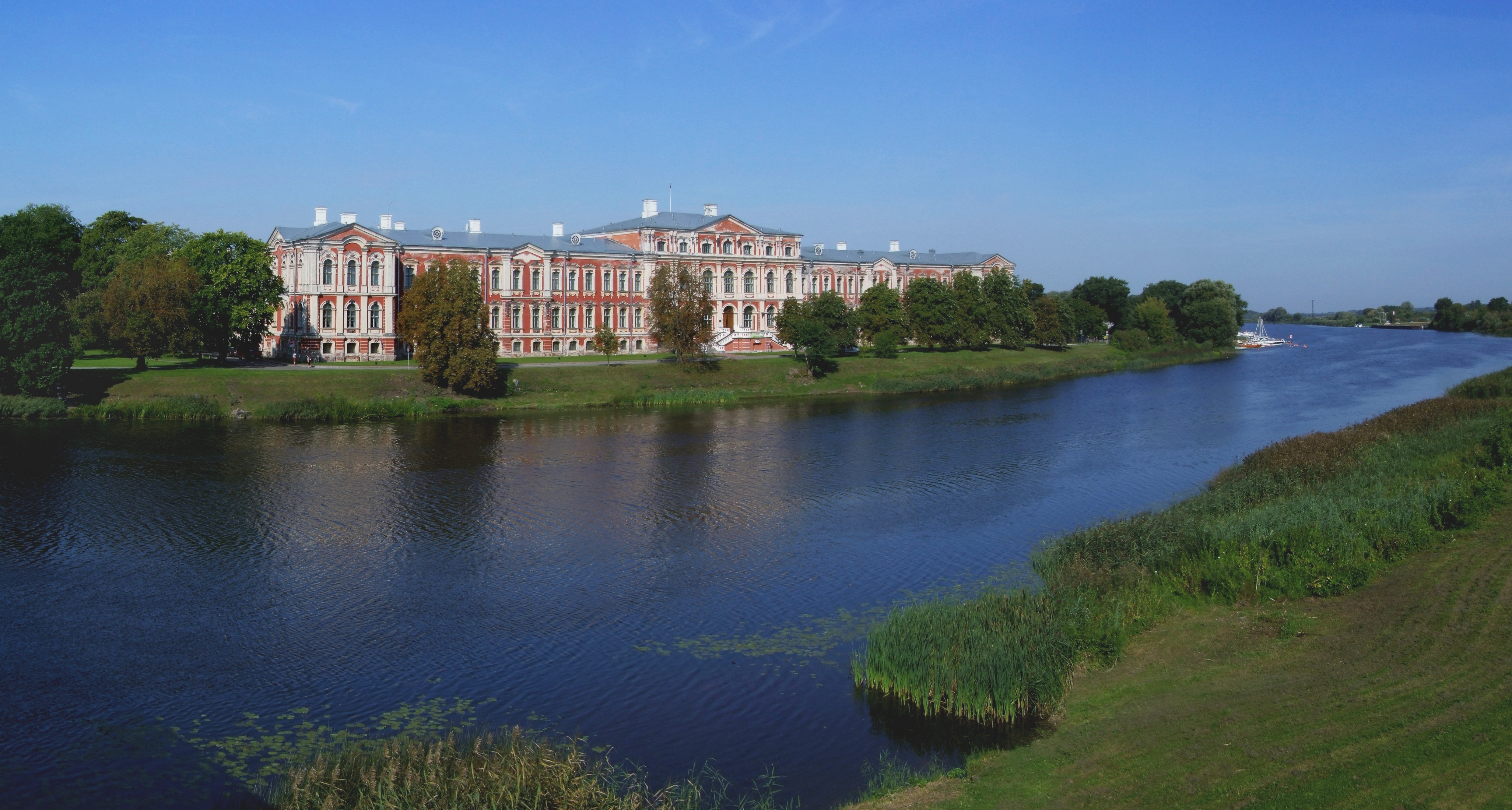 Jelgava castle